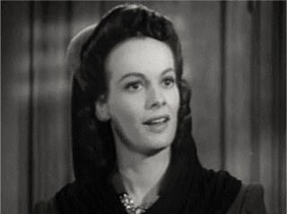 Faye Emerson in Lady Gangster - cropped screenshot